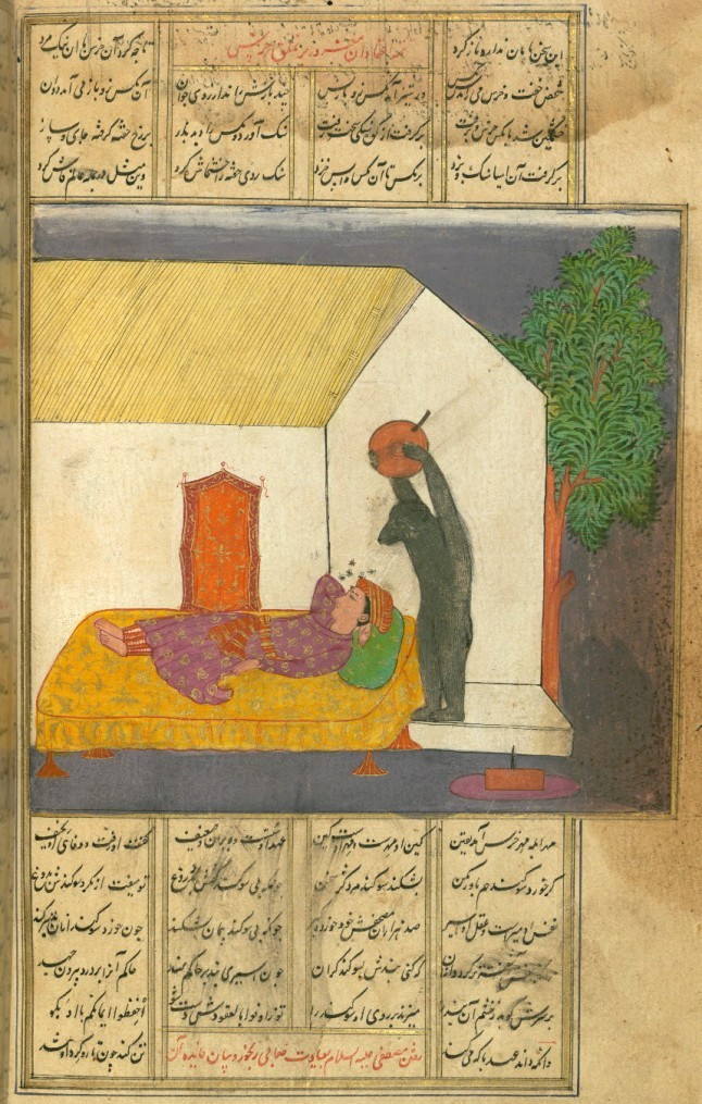 Folio 79b of an illuminated copy of Jalāl al-Dīn Rūmī’s Mas̱navī. According to the colophon, the text was completed in India in 1663 CE. (Walters Art Museum)